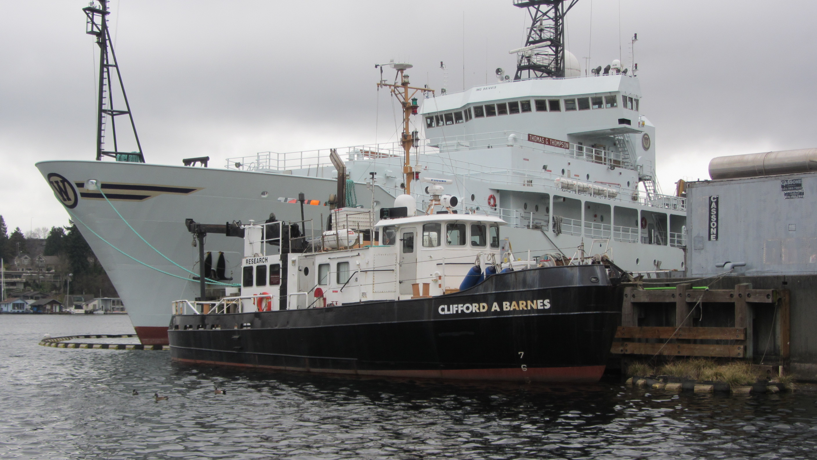 A photograph of the RV Clifford A. Barnes docked at Portage Bay, near Marine Sciences Building, UW, Seattle, WA.